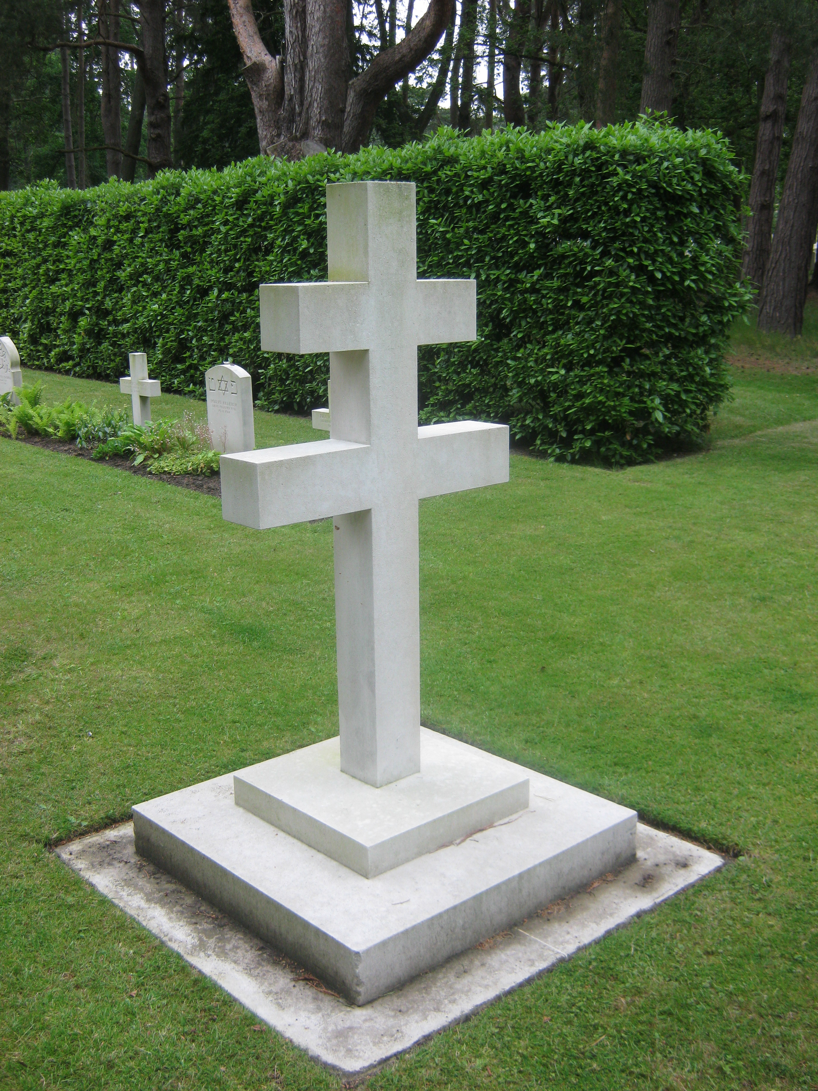 French Plot, Brookwood Military Cemetery